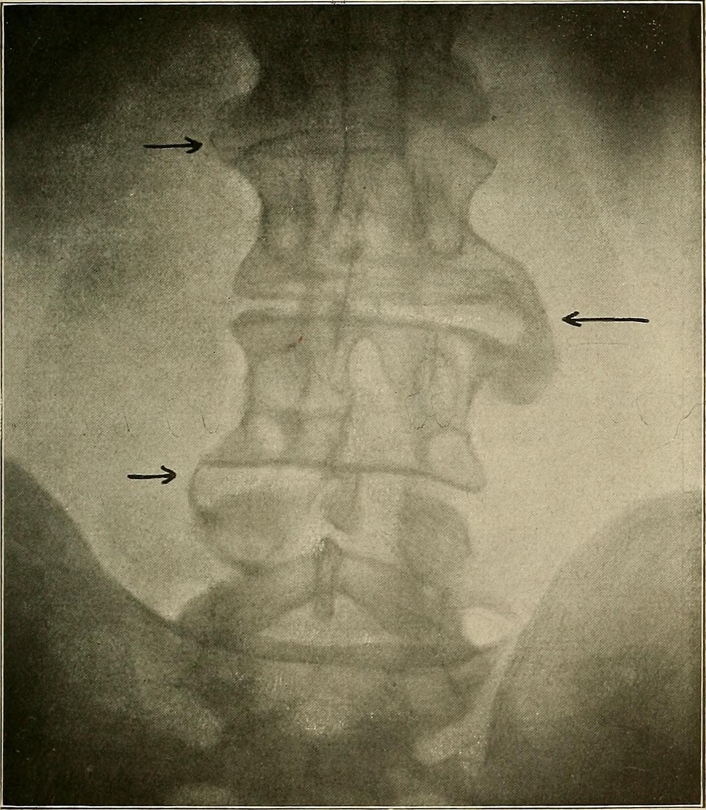 Title: A text-book of radiology Year: 1915 (1910s) Authors: Morton, Edward Reginald, 1867- Subjects: X-rays Cathode rays Ohm's law Fluorescence X-rays Radiography X-Rays Radiography Publisher: New York : E.B. Treat & Co. Text Appearing Before Image: Fig. 53. Cervical Ribs. On the right side is a false rib which is rigid, causing pressure onnerves. On the left side is a • true cervical rib with articulations—nosymptoms, but light pressure with the finger controlled the radial pulse. Lumbar Vertebrae.—Here, as in all cases of radio-graphy through the trunk, let the patient be pre-pared by the administration of a vegetable purge over-night, and an enema in the morning. Bowel contentsoften cause shadows on the plate, which obscure importantdetails, besides being confusing in themselves. LUMBAR VERTEBRAE. 141 The shoulders should be raised, and the knees drawn upand supported by a big cushion. This straightens outthe lumbar curve, bringing the bones closer to the plate. Text Appearing After Image: Fig. 54. Osteoarthritis of Lumbar Spine. The characteristic lipping of the edges of the vertibral bodiesis seen in different stages even to the extent of fusion. The normal ray passes through just above theumbilicus, which is opposite the fourth lumbar vertebra. Sacrum and Coccyx.—The normal ray should passjust above the symphysis. The view of the sacrum isalways foreshortened on account of its oblique position. 142 TEXT-BOOK OF RADIOLOGY. Clavicle.—In this case it is best to have the tube under-neath, while the patient lies in the dorsal position.